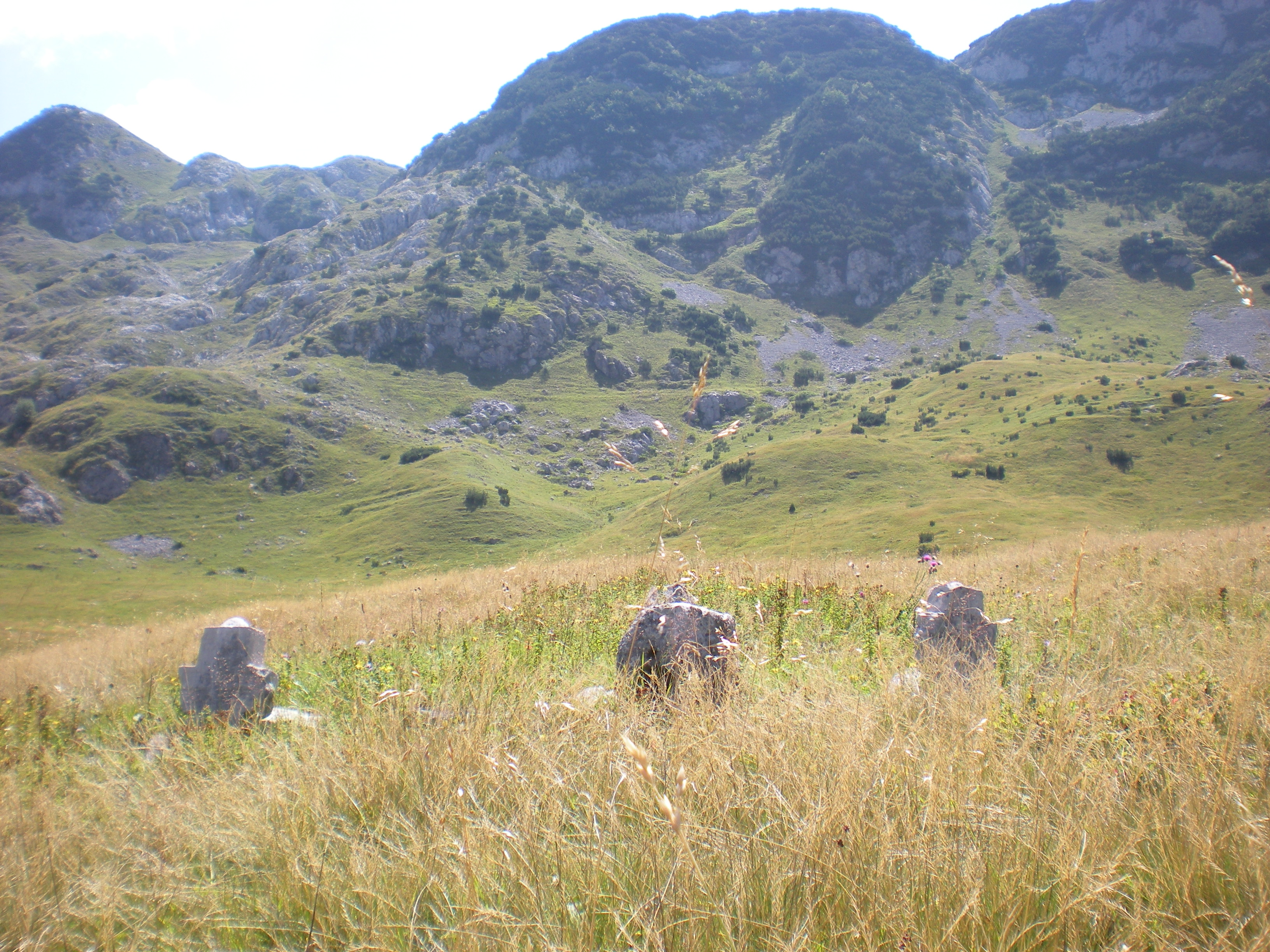 Ancient tombstones near Orlovacko Jezero in the Zelengora mountains in Bosnia Herzegovina.